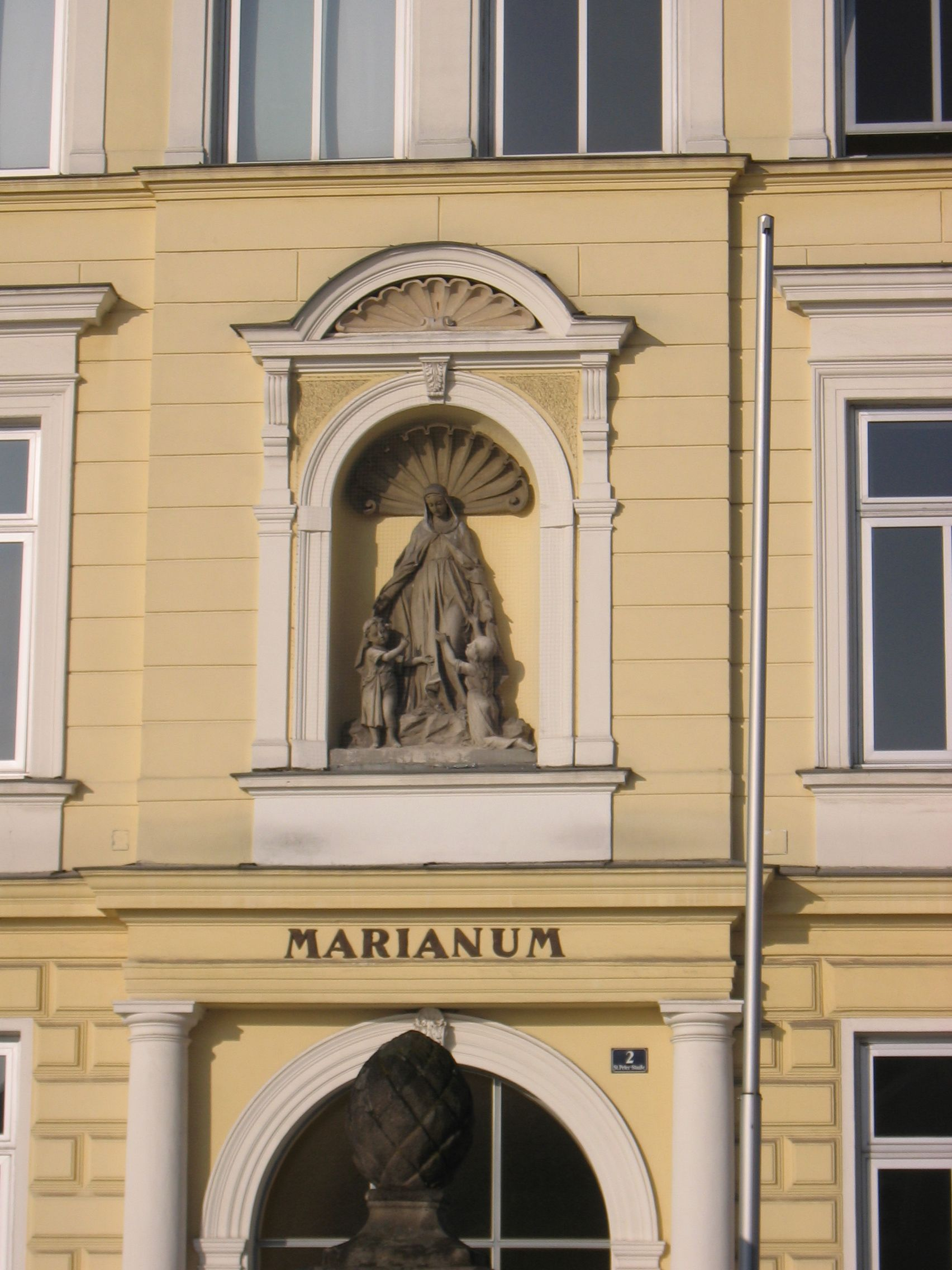 Marianum Freistadt